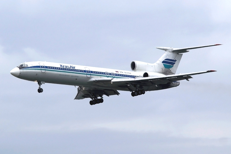 Kras Air Tupolev 154 RA-85702 at Frankfurt Airport